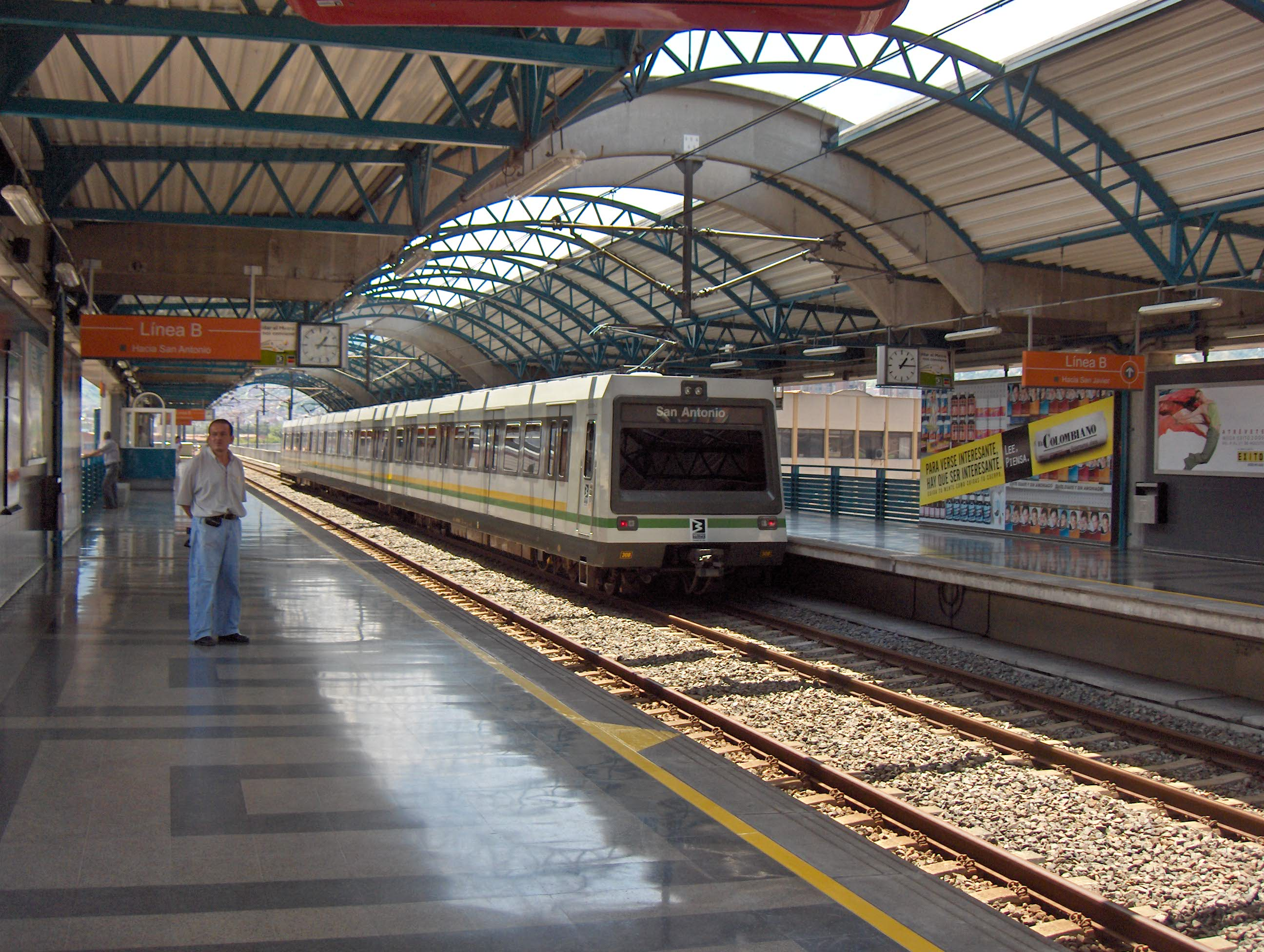 Picture captured by yussef90 on August,2005